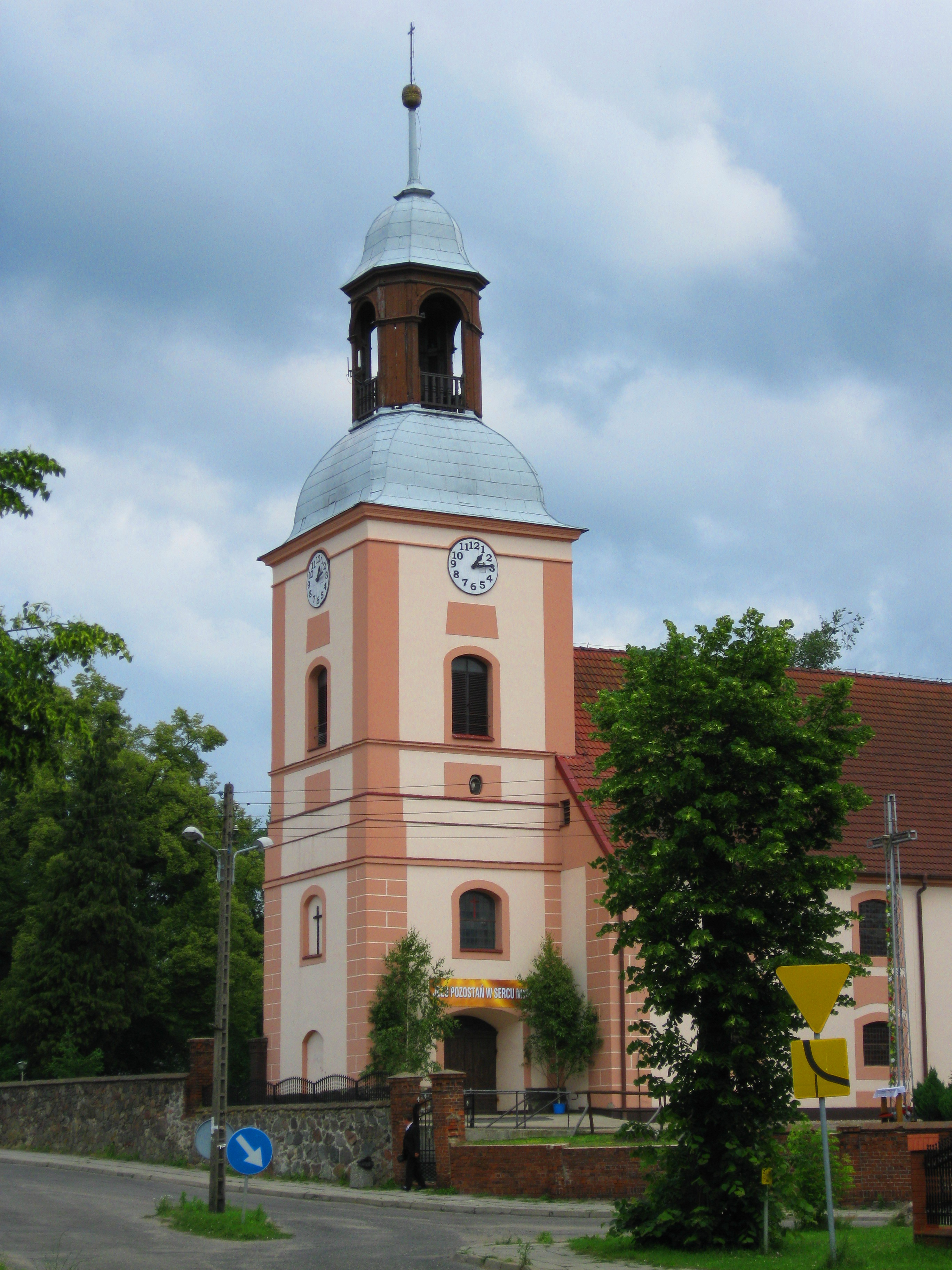 Roman Catholic church in Cybinka, Poland